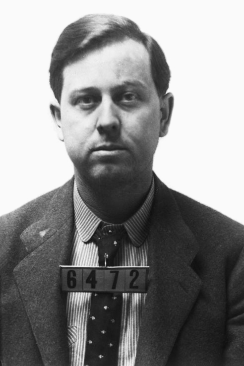 Prison photograph of Emmett Dalton of the Dalton Gang